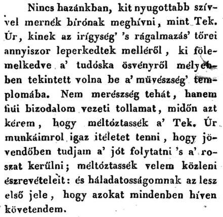 Kisfaludy Károly's letter to Kazinczy